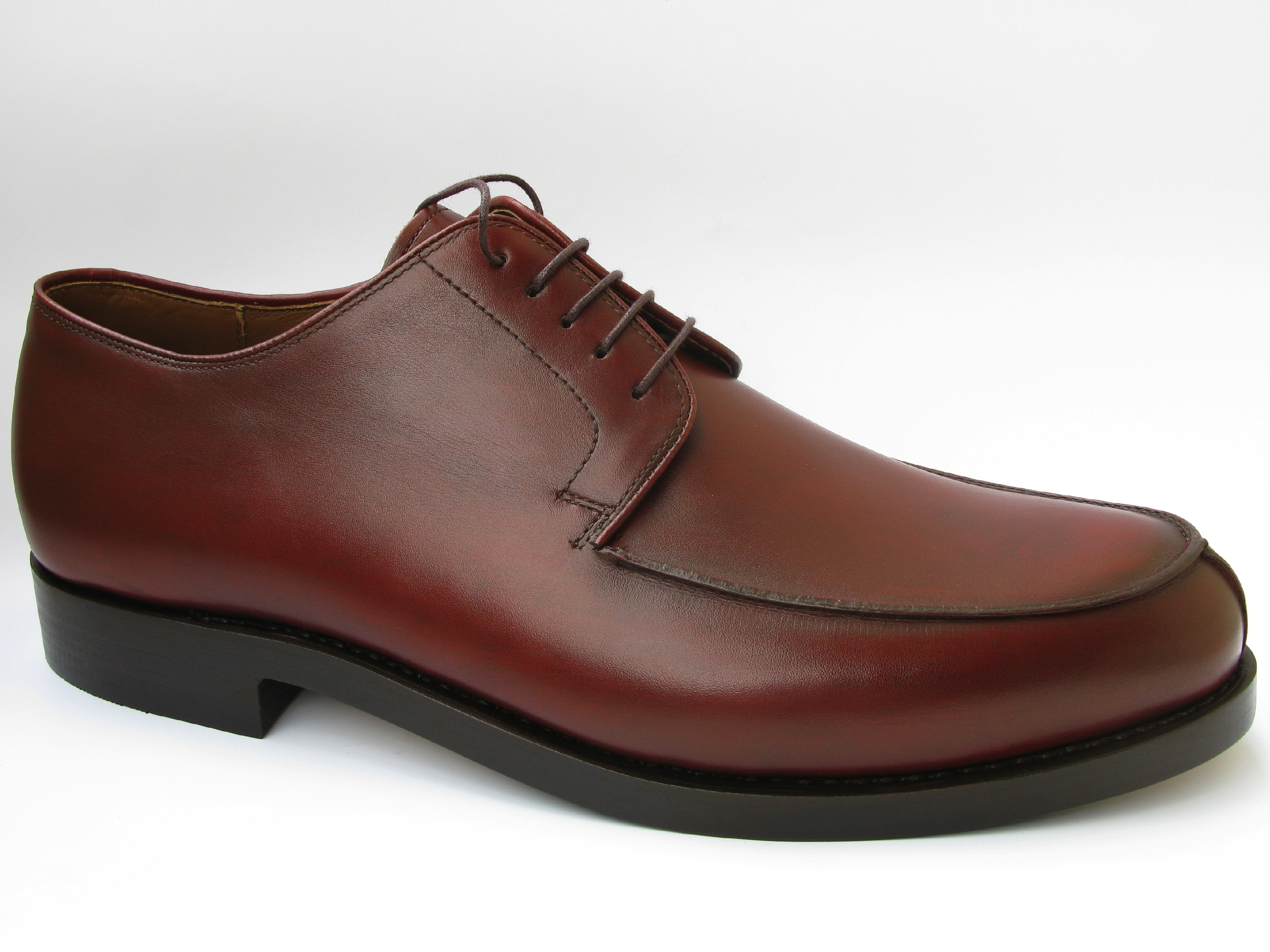 Red Norway Shoe with leather sole